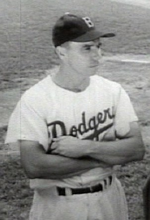 Pee Wee Reese in a 1950s television commercial for Gillette Super-Speed Razors. Frame grabbed from around the 03:59 mark of Prelinger Collection video; cropped and sharpened.